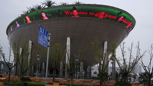 the Saudi Arabia pavilion of Shanghai expo2010.